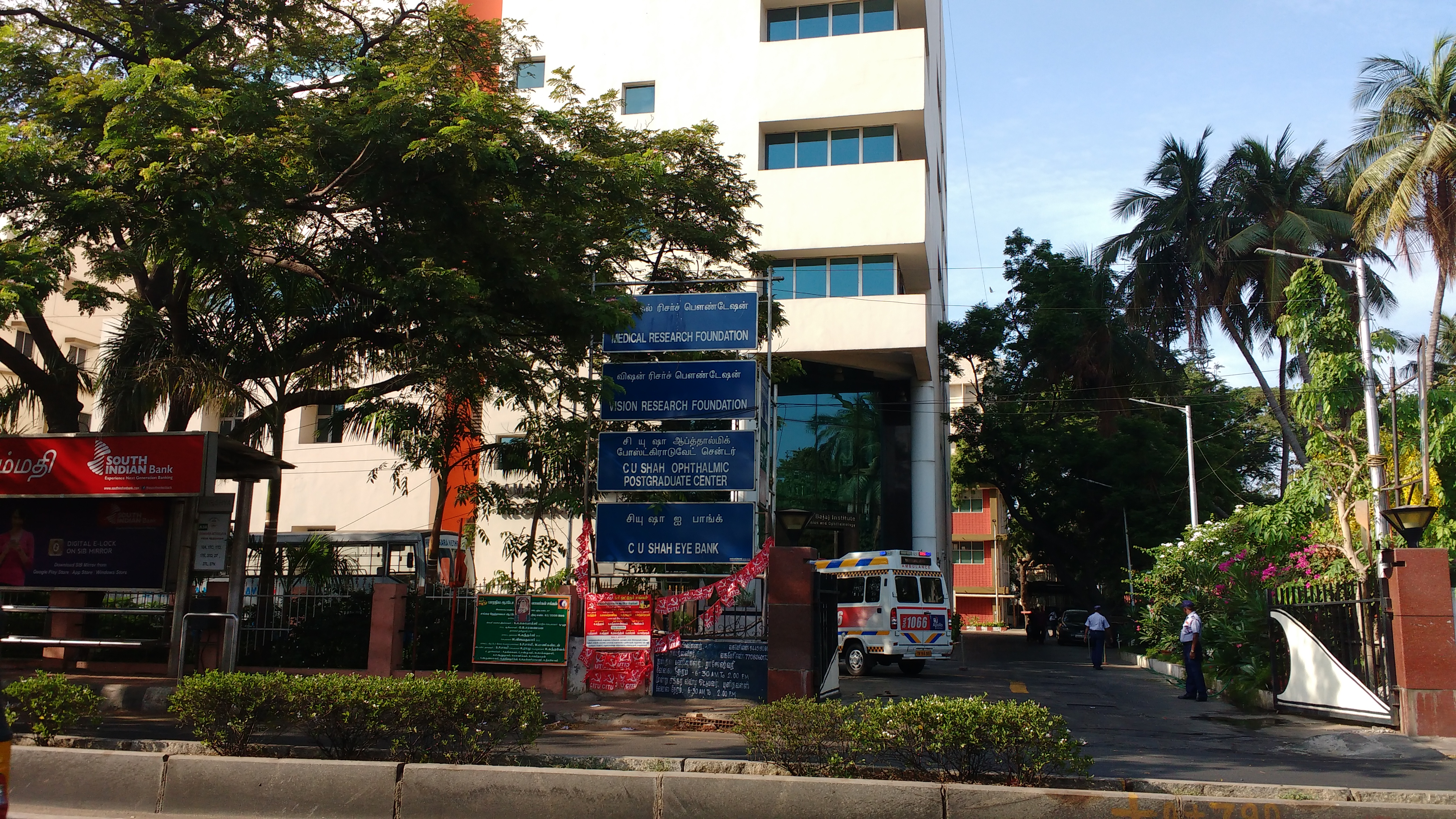 SBI Chennai Regional Head Office